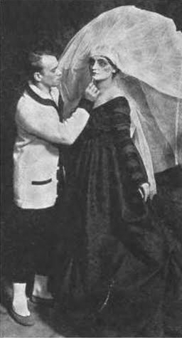 Nijinsky examining the makeup of dancer Sophie Pflanz, from a 1916 publication. Nijinky is a white man standing, with his hand on the chin of a white woman (Pflanz), also standing, in a large pale headpiece and dark costume, with exaggerated stage makeup.